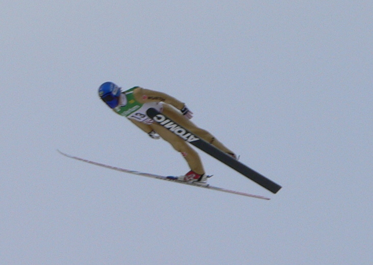 From the 2005 World Cup Nordic Combined event in Holmenkollen.